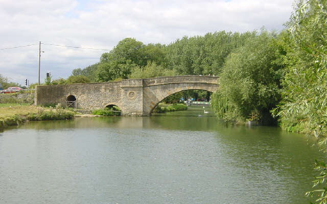 Ha'penny Bridge on the River Thames, Lechlade, Gloucestershire